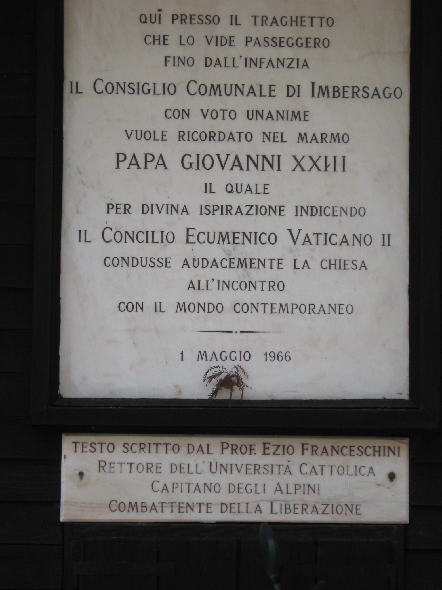 Marble plaque in honor to Pope John XXIII. Traghetto di Leonardo in Imbersago, Italy